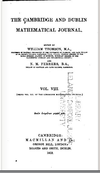 Author: Duncan Farquharson Gregory, Robert Leslie Ellis, William Thomson Kelvin, Norman Macleod Ferrers Publisher: E. Johnson [etc.] Year: 1853 Possible copyright status: NOT_IN_COPYRIGHT Language: English Digitizing sponsor: Google Book from the collections of: unknown library Collection: americana